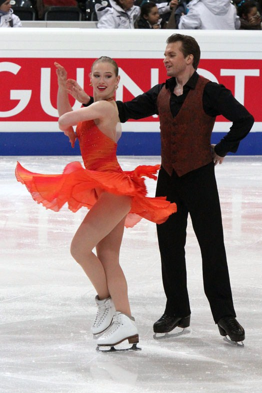 Siobhan Heekin-Canedy and Alexander Shakalov at the 2011 European Figure Skating Championships